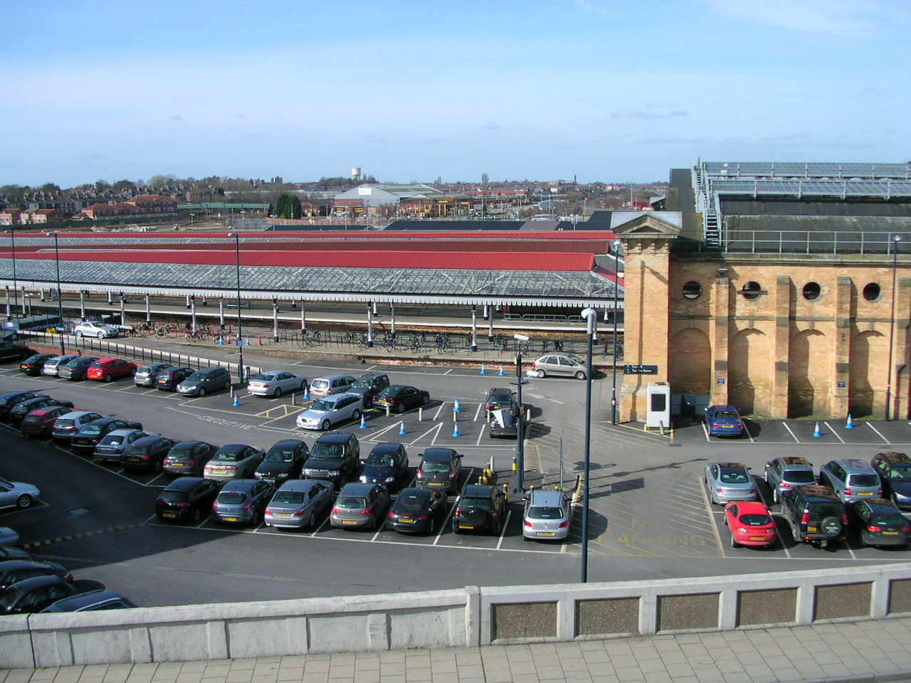 York railway station from the walls, England.